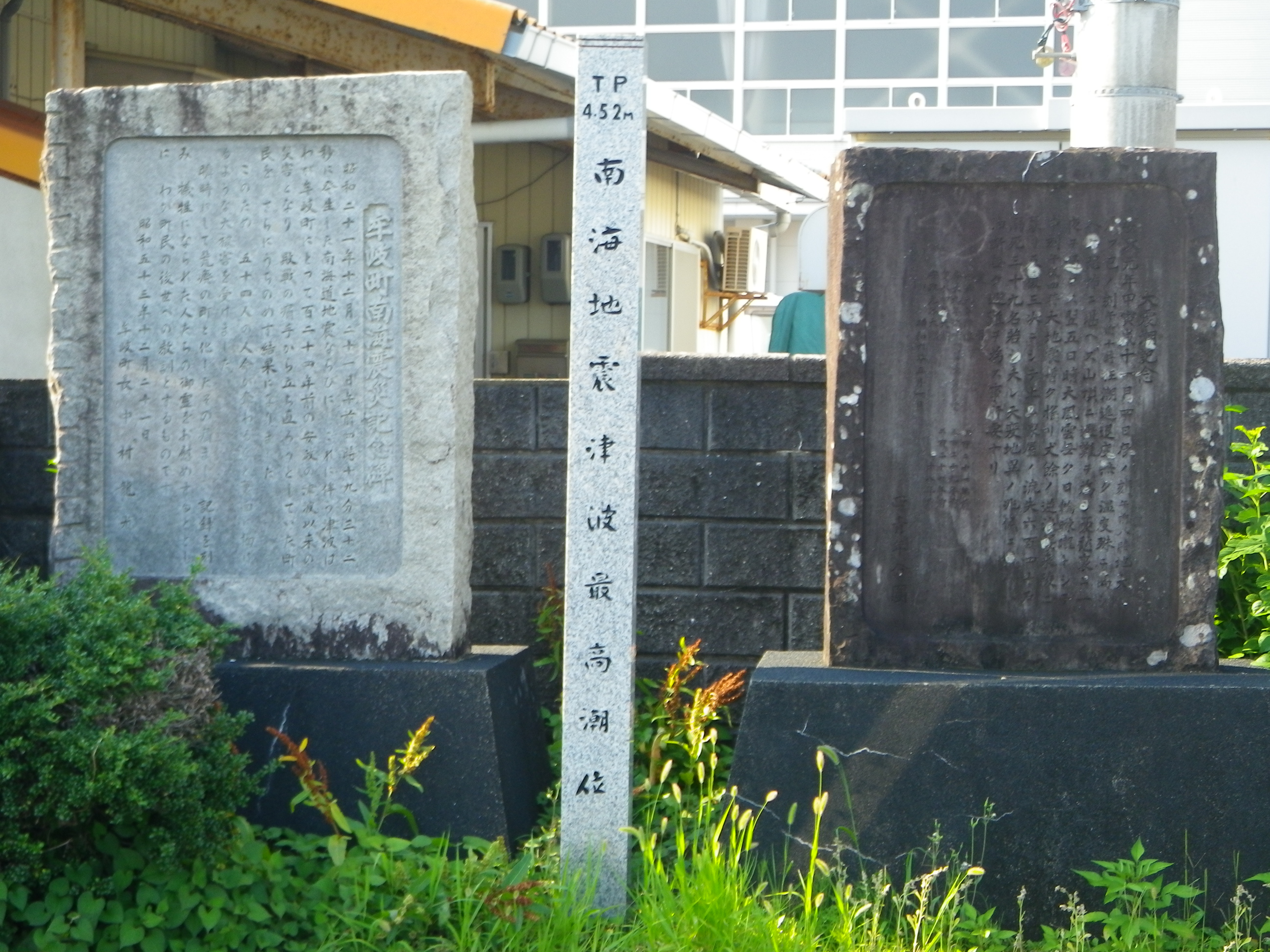 Mugi ansei-showa tsunami monument